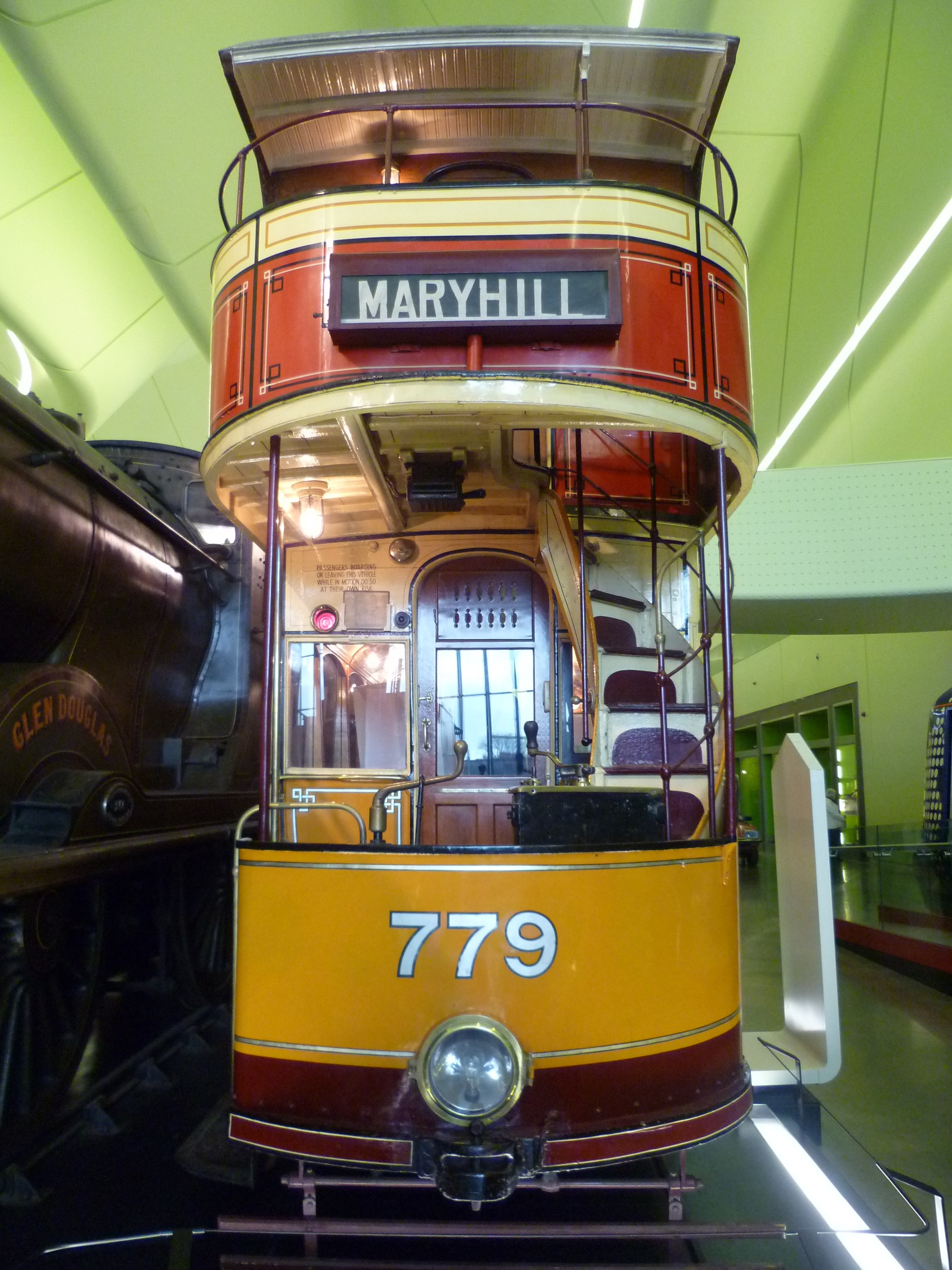 Glasgow tramcar in the Riverside Museum, Glasgow